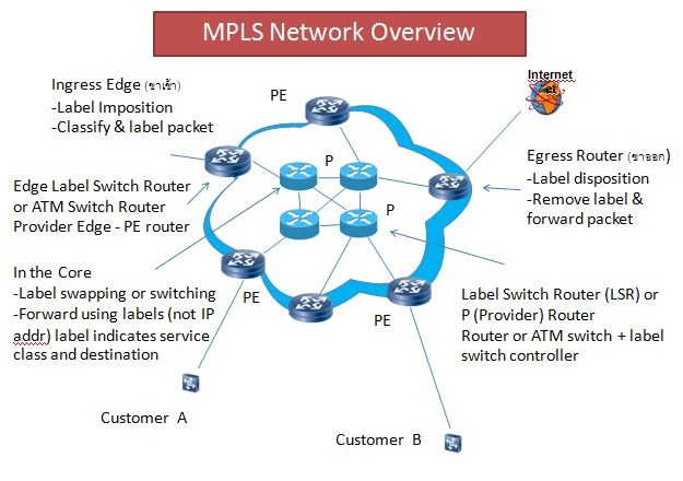 MPLS_Network_Overview